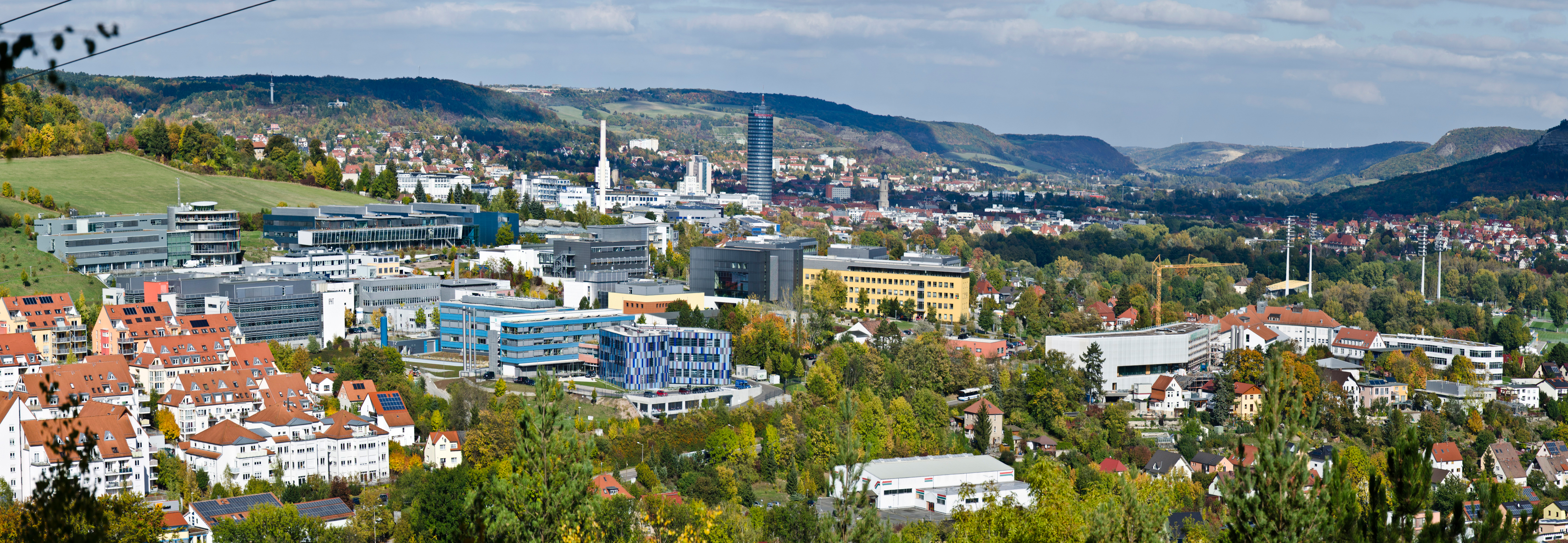 Panorama view of the Beutenberg Research Campus in Jena, Germany.